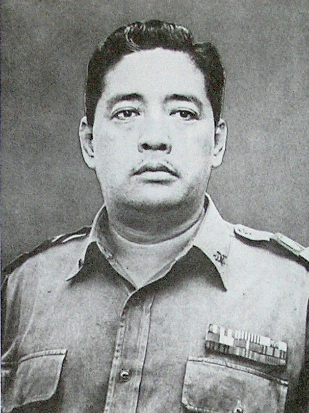 Lieutenant General Soeprapto, Indonesian Army general killed in 1965